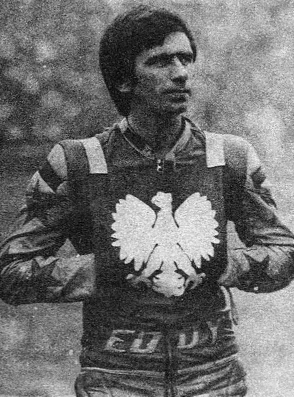 Edward Jancarz. Polish speedway rider.